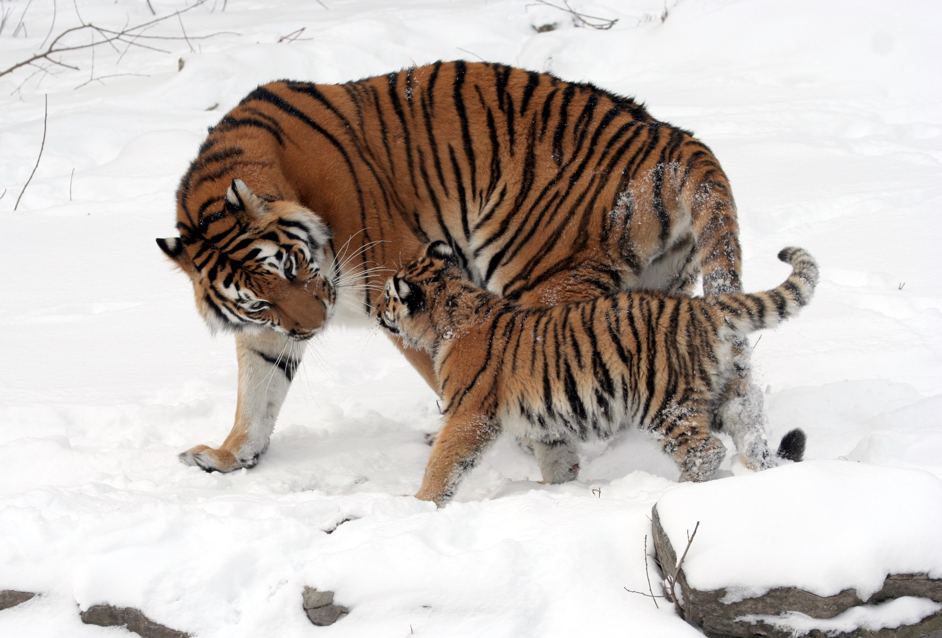 Amur tiger (Panthera tigris altaica) at the Buffalo Zoo. One of the cubs Thyme and Warner, with its mother Sungari. The cubs were born at the zoo to Sungari, and father Toma, on 7 October 2007.